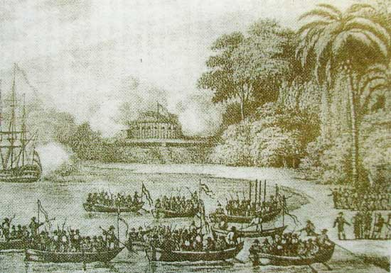 Historical engraving of Johor-Dutch wars in 1783